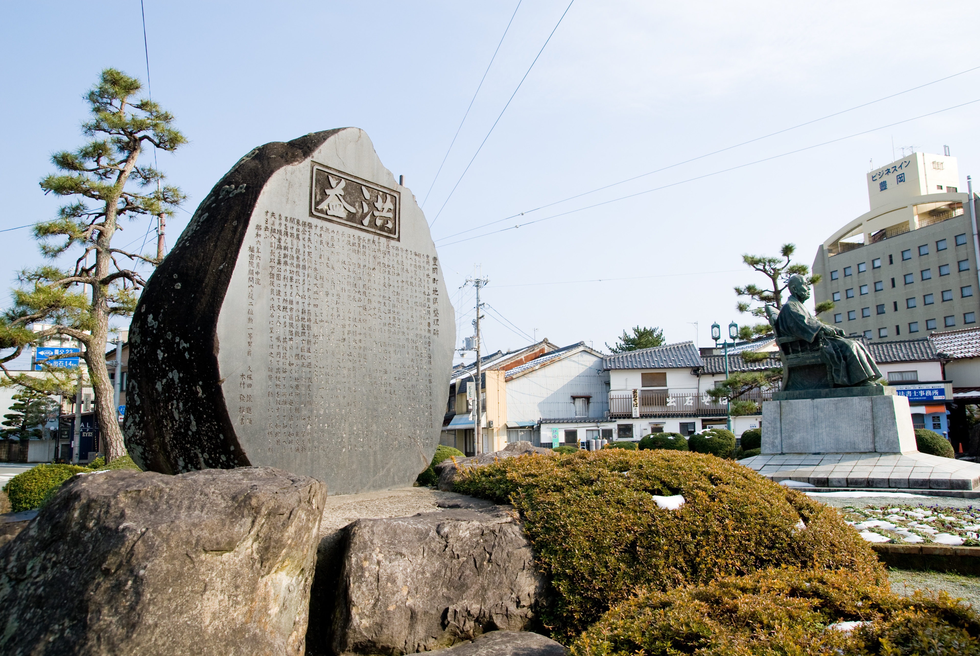 Stone monument of Roundabout in Toyooka City.